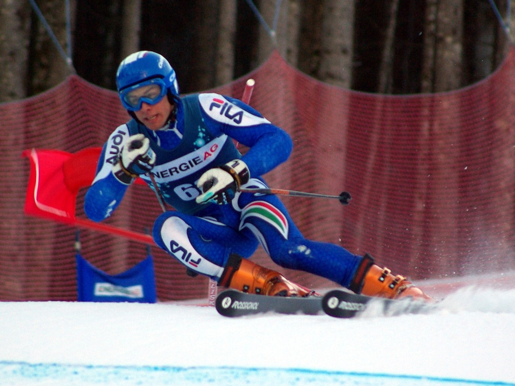 Italian alpine skier Matteo Marsaglia during the European Cup Giant Slalom in Hinterstoder, Austria on January 11, 2008.